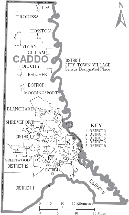 Map of Caddo Parish, Louisiana, United States with district and municipal boundaries